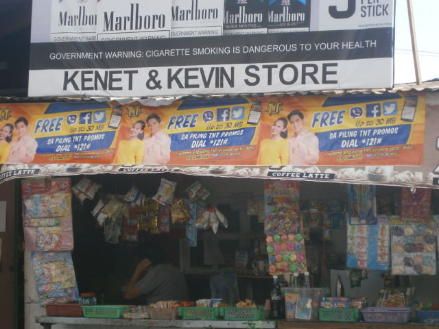 An banner of Talk N' Text promo featuring Aldub in a sari-sari store in Holy Spirit, Quezon City.